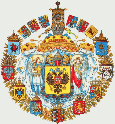 Coat of arms of the Russian Empire, year 1882.